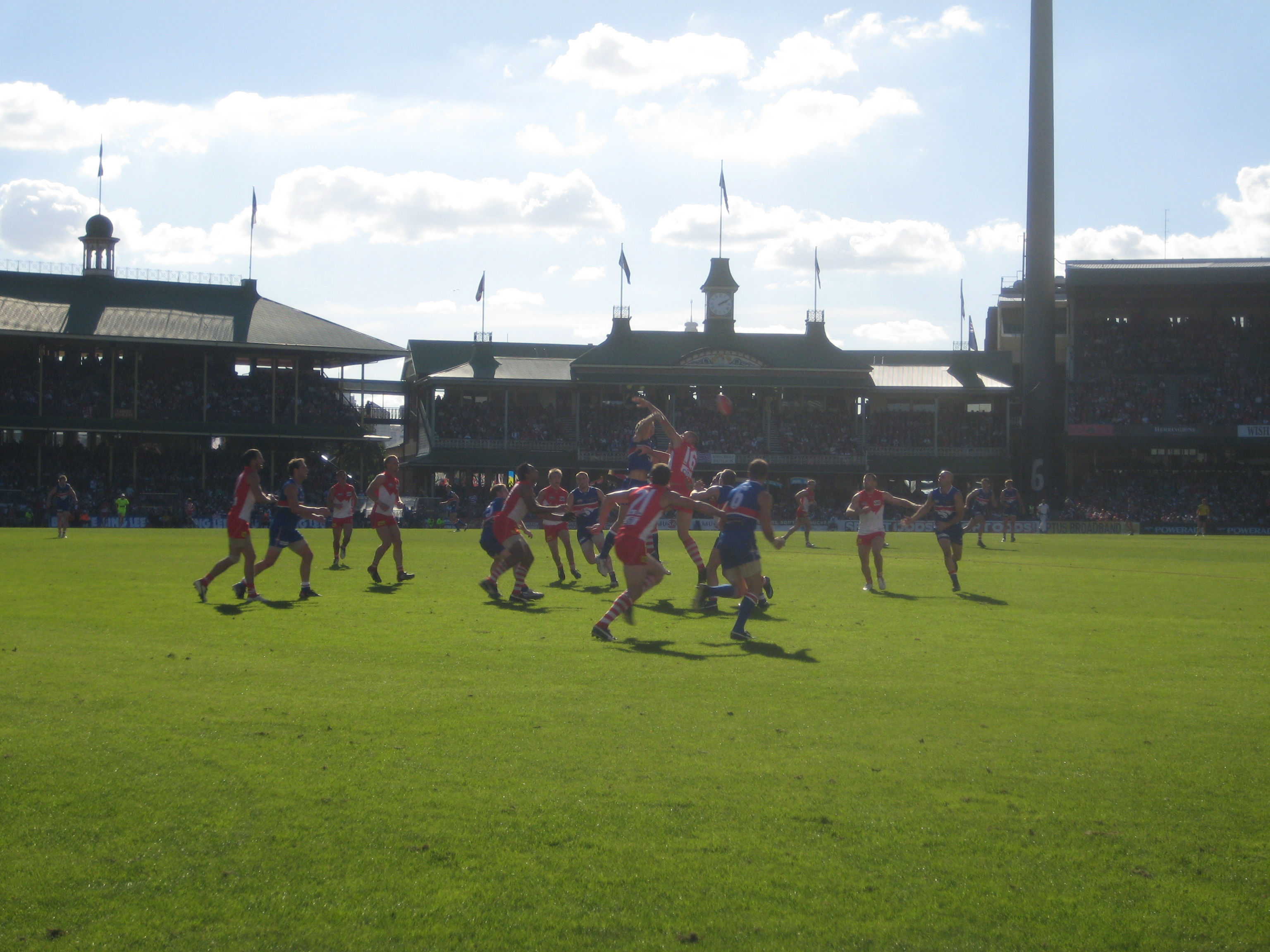 A marking contest at an AFL match between the Sydney Swans and Western Bulldogs.